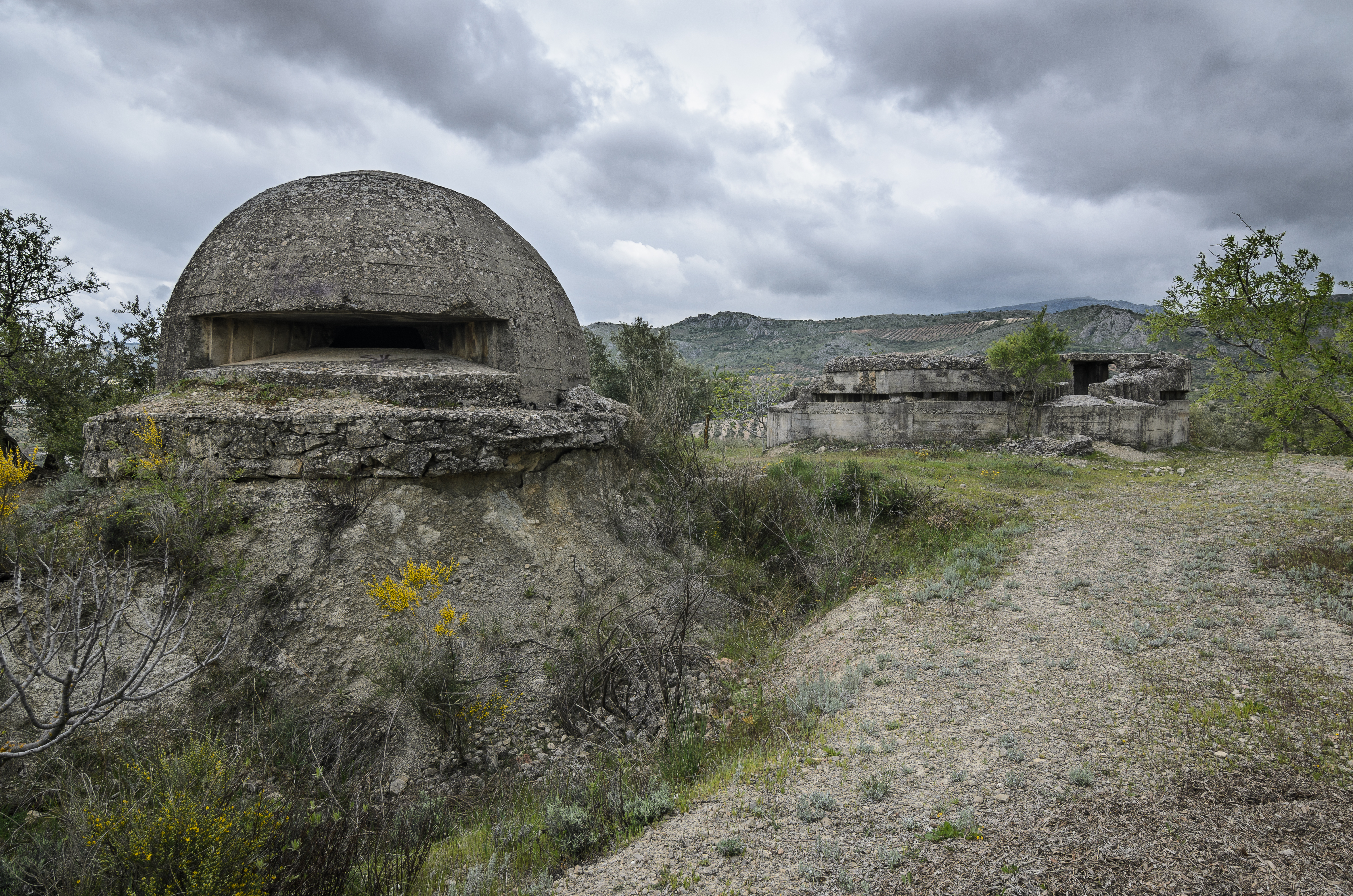 Group of bunkers in Cerro del Aceitunillo in Luque, Cordoba, Spain. Exterior view of a bunker.